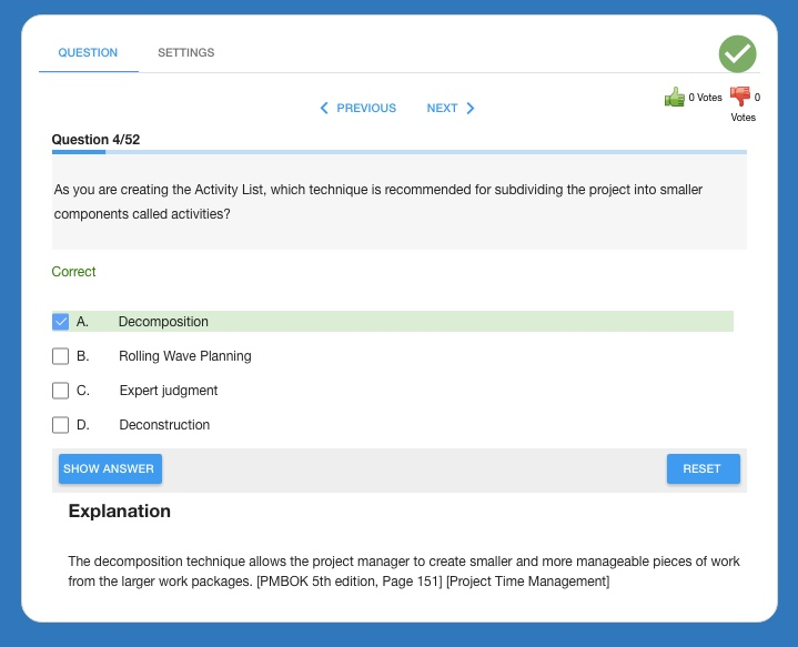 Sample exam on